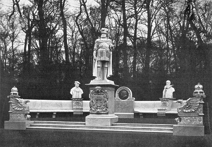 Monument group № 20 in the former Siegesallee in Berlin commemorating Brandenburg’s Margrave and Elector Joachim II Hector (1505–1571). The bust on the left commemorates George, Margrave of Brandenburg-Ansbach, and the bust on the right Matthias von Jagow, bishop of Brandenburg). Sculptor: Harro Magnussen. The sculpture was unveiled on 22 December 1900.